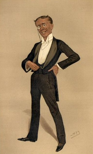 Caricature of George Grossmith. Caption read "The Pinafore".